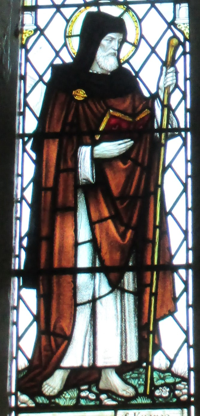 Detail of the east window of the south aisle of Holy Trinity Church, Lower Beeding, West Sussex. It was produced in 1918 by the James Powell studio, and depicts St Robert of Knaresborough.